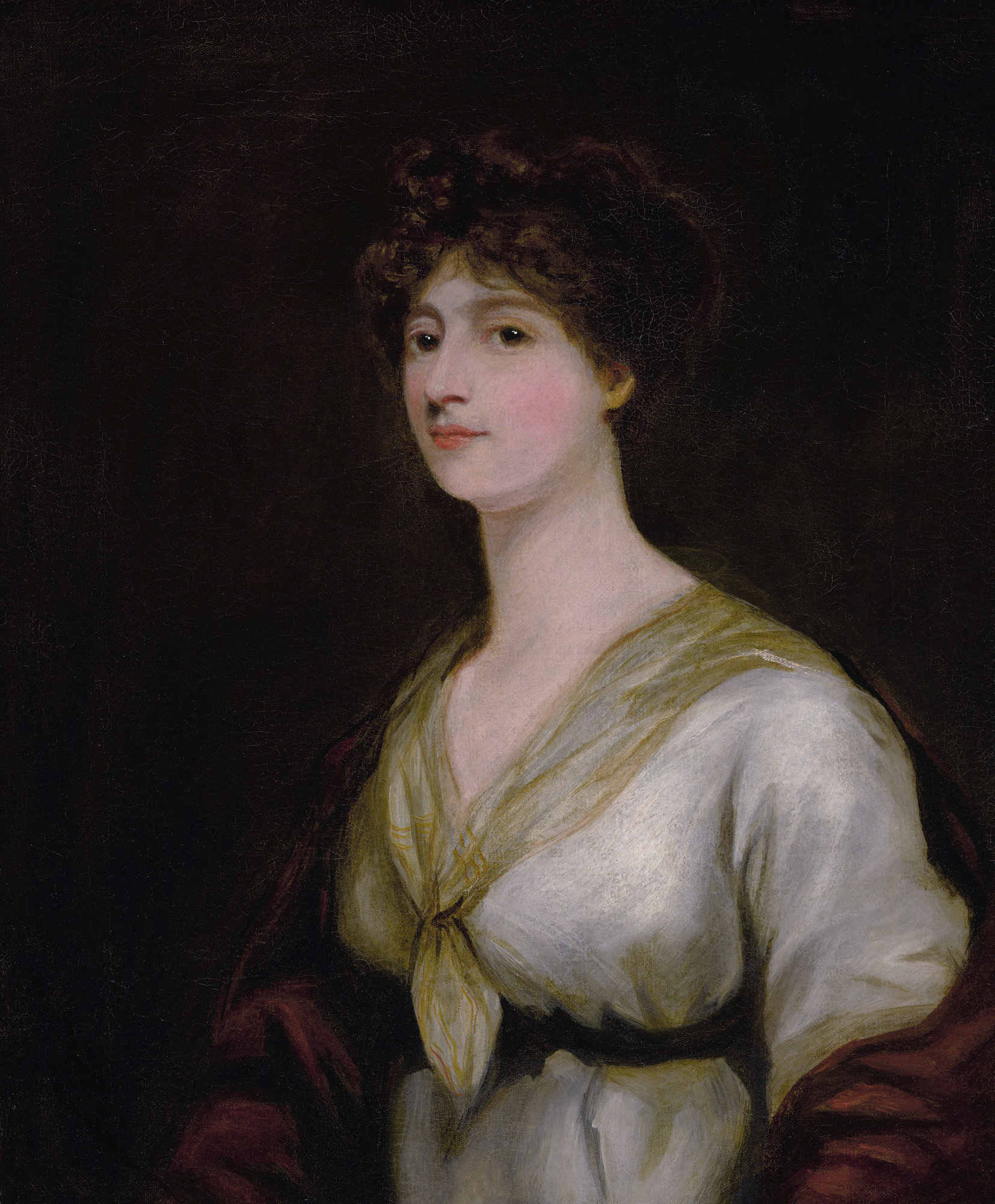 Mary Bristow, Joseph Grimaldi's second wife oil on canvas 75.9 x 63.5 cm.